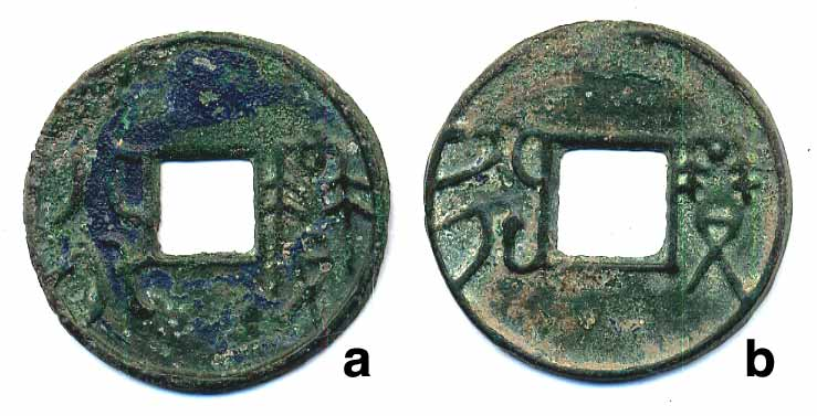 ZHOU ROUND COINS ca.350-220BC H6.25a Yi Liu Hua, State of Qi, 300-220BC. (City of) Yi, Six Hua (I Liu Huo) 34.6mm, 8.221g FD440, S70-71, HG134/2 AVF, patchy color